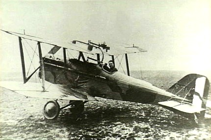 Identified in the cock-pit of the SE 5A British fighter aircraft is Sub Lieutenant Roderick Stanley (Stan) Dallas, No 1 Squadron, Royal Naval Air Service (RNAS). Born in Queensland, Dallas sailed to England at the start of the First World War, seeking flight training and after being accepted into the RNAS, was commissioned as a Flight Sub Lieutenant, joining No 1 Squadron in December 1915. During his service on the Western Front, in 1916 and 1917, he proved himself as an exceptional pilot and on 14 June 1917 he was made Commanding Officer of his Squadron. In 1918 after the amalgamation of the two air services to form the Royal Air Force (RAF), he was transferred to 40 Squadron RAF and held the rank of Major. While on a reconnaissance operation, Dallas was struck with 3 bullets to his leg, after his safe return to base he was awarded the Distinguished Service Order (DSO) having already been awarded the Distinguished Service Cross (DSC) and Bar and the French award, the Croix de Guerre and Palm. Major Dallas was killed in action on 1 June 1918, aged 26, while engaged in combat with Fokker Triplanes over France and is buried at Pérnes British Cemetery, Pas de Calais, France. Major Dallas is officially credited with shooting down thirty nine enemy aircraft.